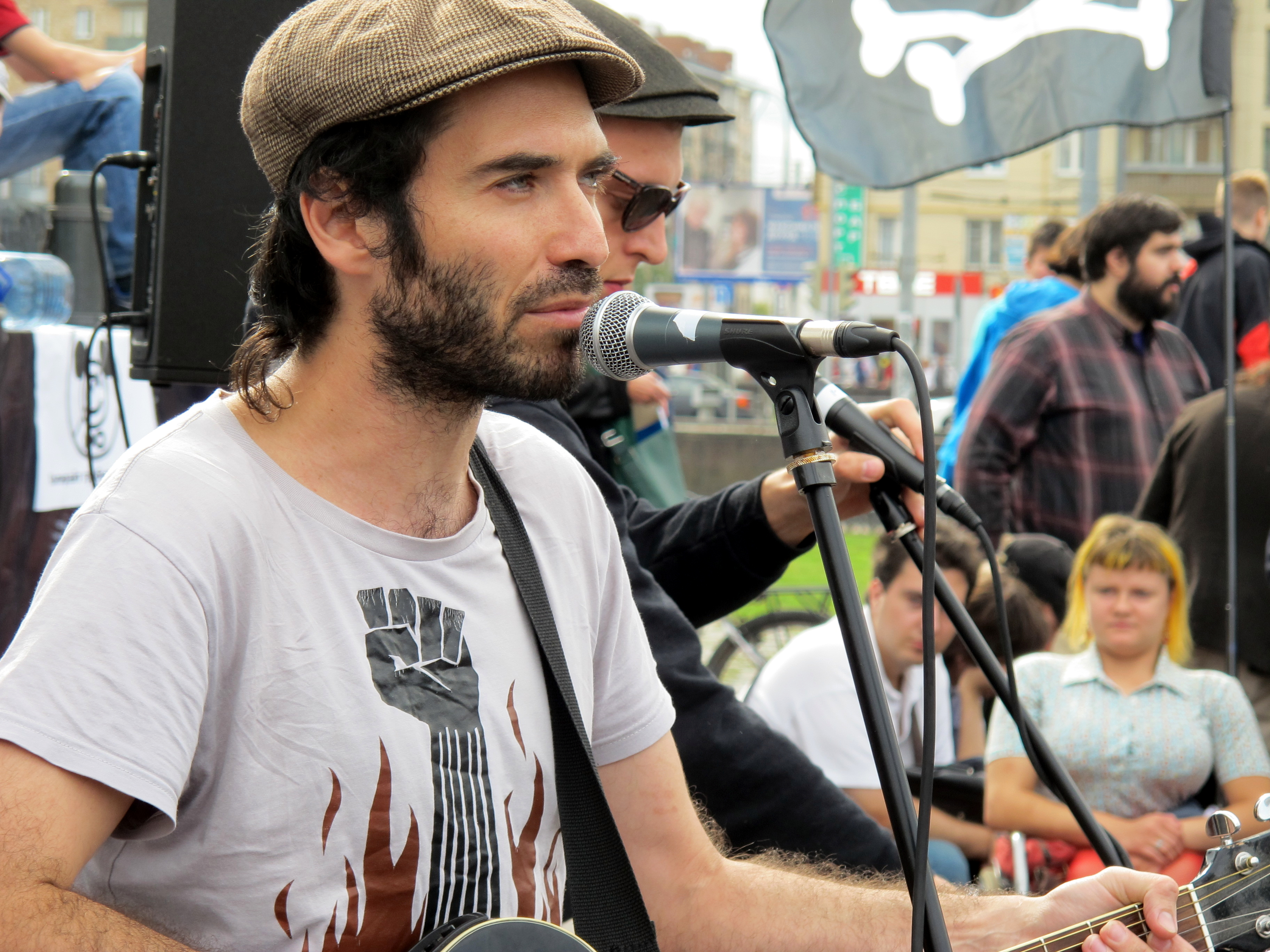 The rally-concert "For Free Internet" in Moscow July 28, 2013.